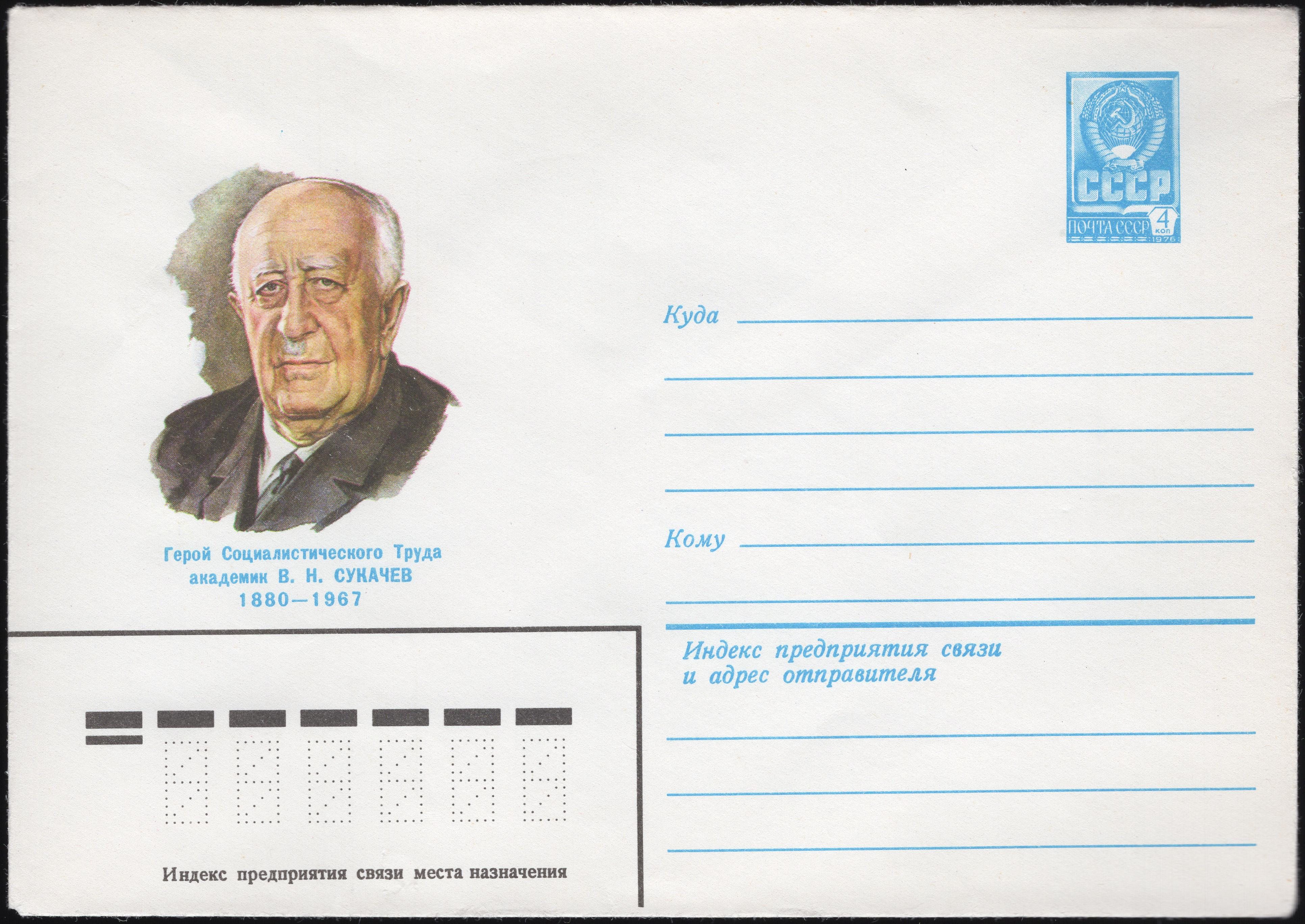 Hero of Socialist Labour academician Vladimir Sukachev. 1880-1967. Series: Hero of Socialist Labour. Artist Sergey Prisekin.